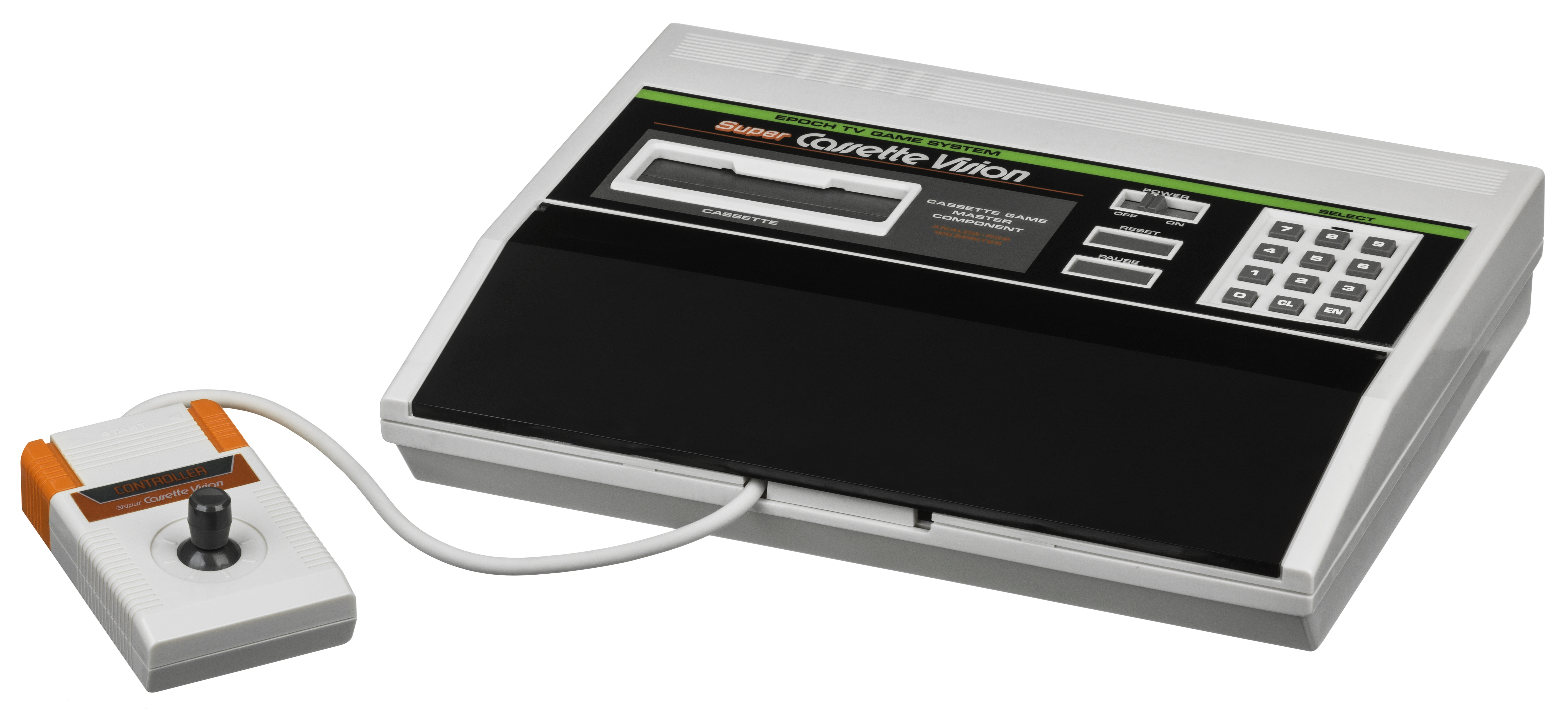 The Epoch Super Cassette Vision, a gaming console released in 1984. Only released in Japan, the Super Cassette Vision was a follow-up to the Cassette Vision. The console features two hardwired controllers that can be stored under the flap in the front.